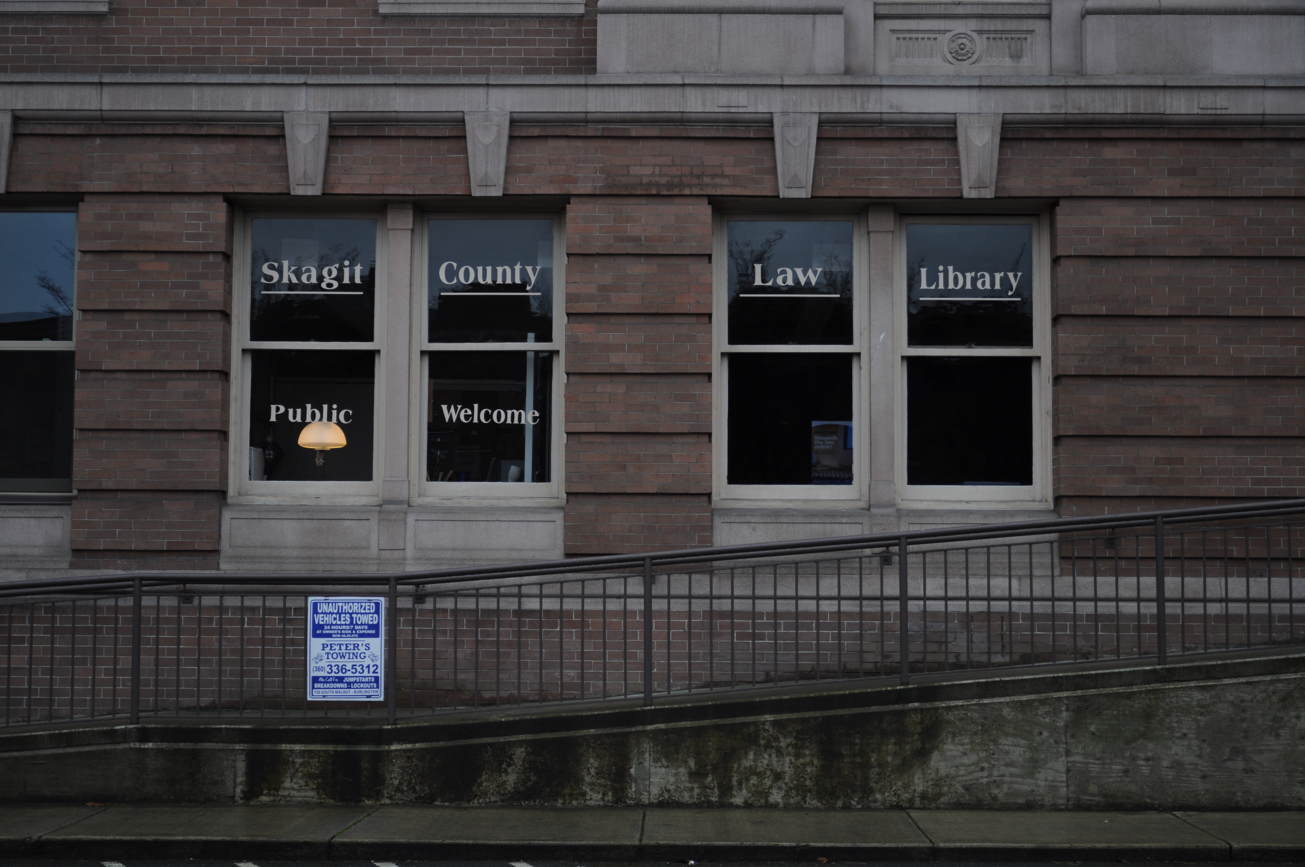 Law library, Skagit County Courthouse, Mount Vernon, Washington.